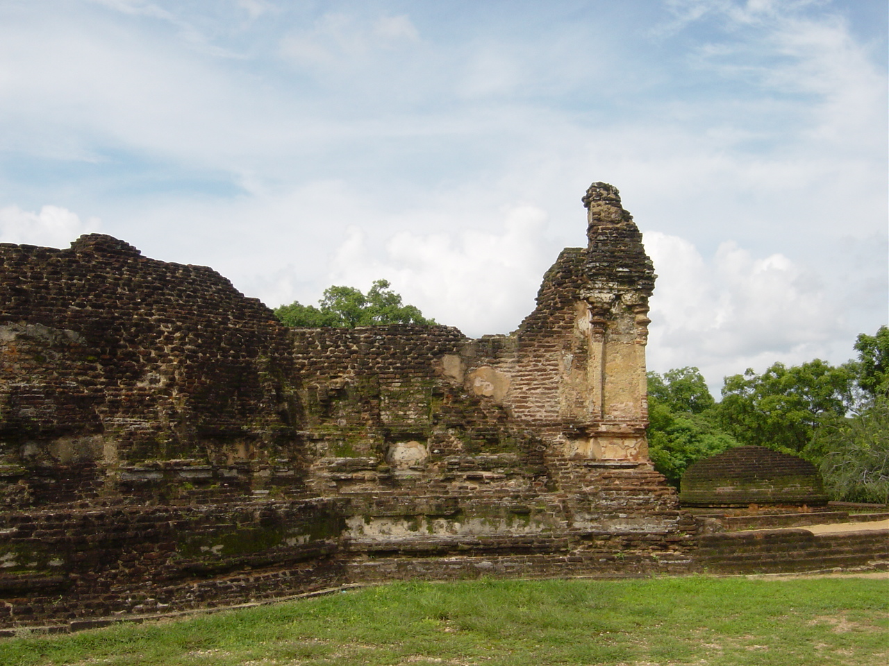 Polanaruwa ruins: What's left of an ancient library and reading room, at Sri Lanka's second capital city.